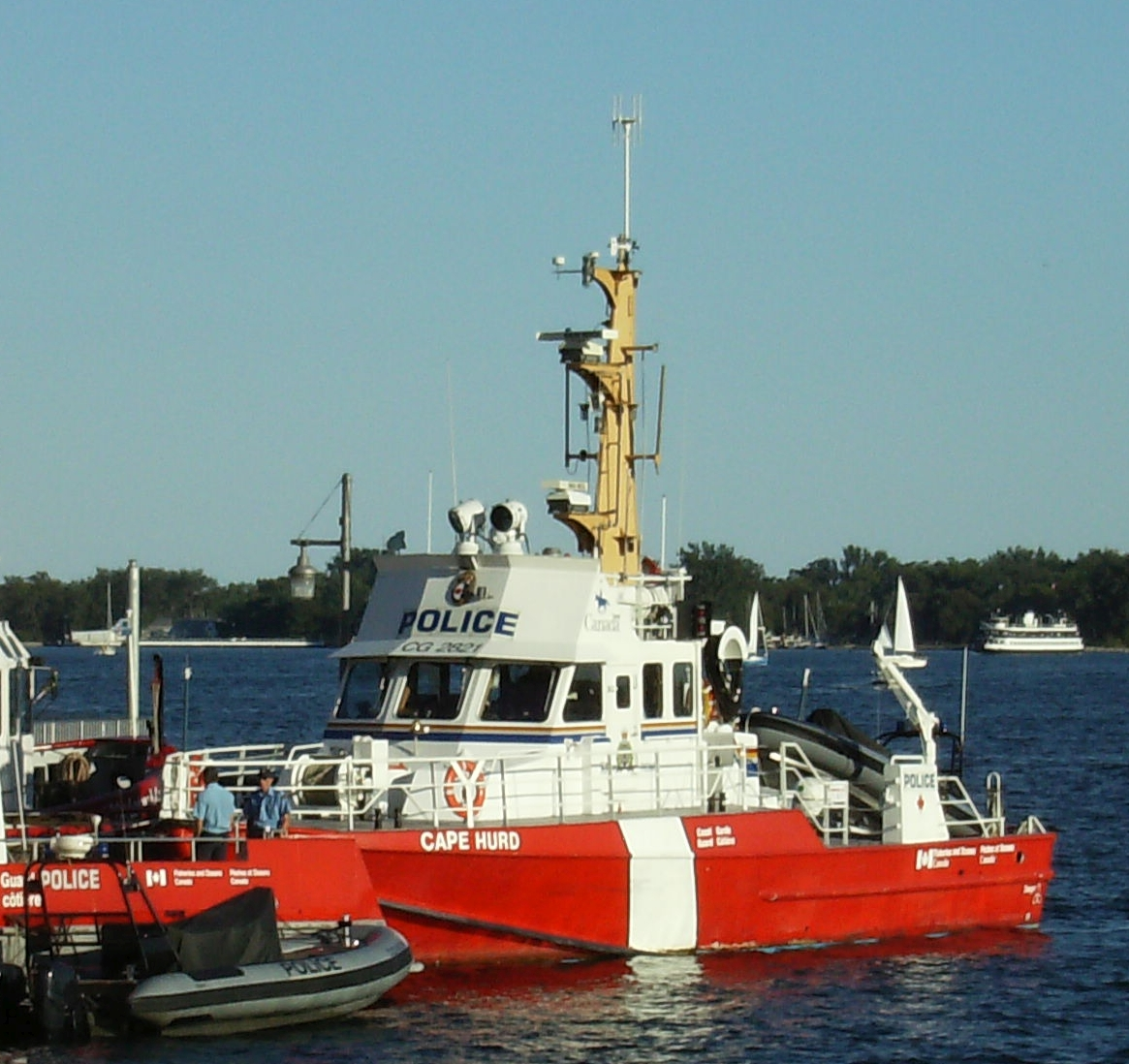 CCGS Cape Hurd moored in Toronto in 2007.